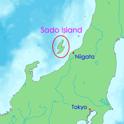 The location of Sado Island